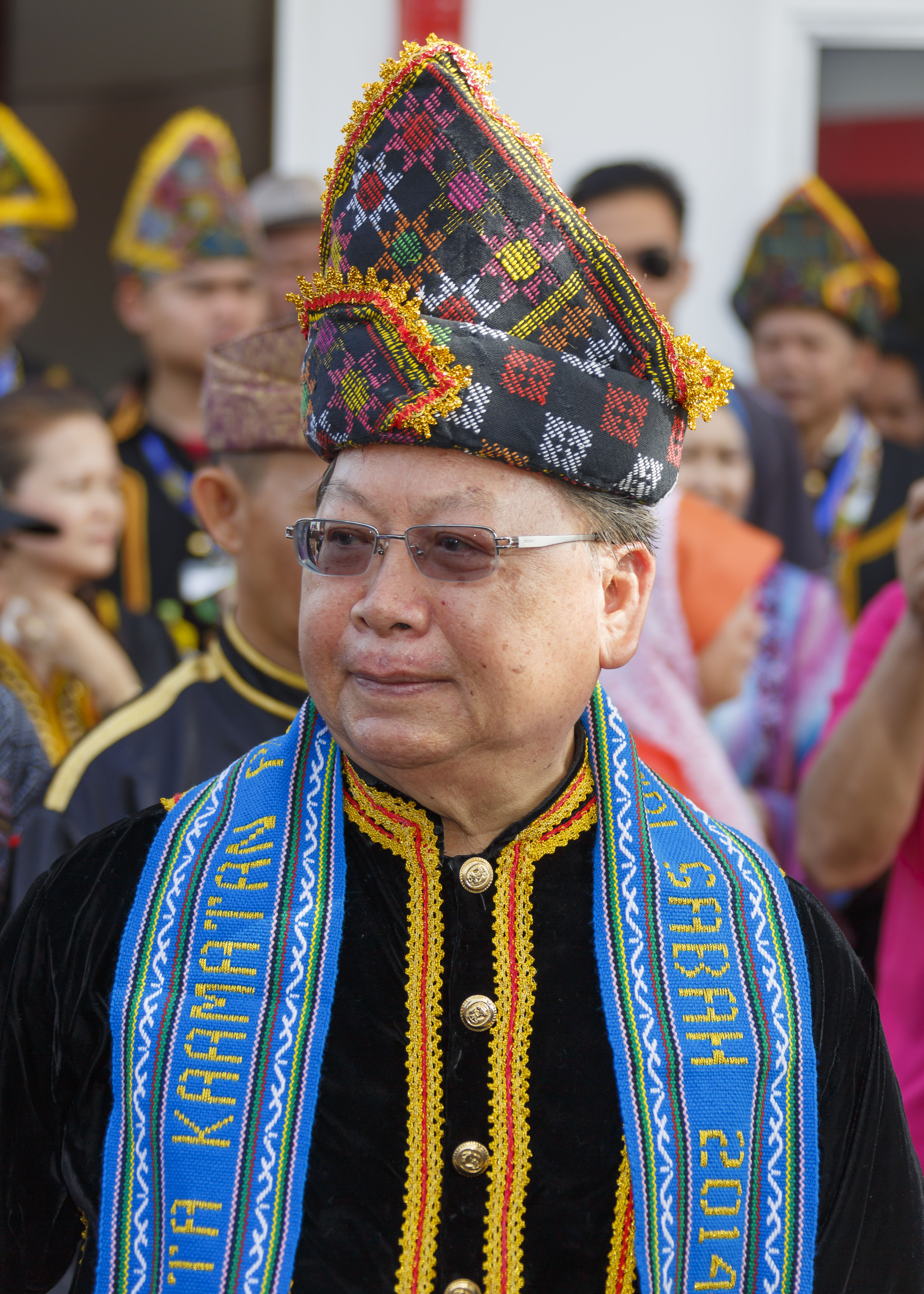 Penampang, Sabah: Joseph Pairin Kitingan in traditional Dusun costume. He is Deputy Chief Minister and Minister of Infrastructure Development of Sabah and founder and President of Parti Bersatu Sabah (Sabah United Party). Pairin is also the Huguan Siou or Paramount Leader of the Kadazandusun community for being the President of the Kadazandusun Cultural Association (KDCA), the community's principal cultural association. Photo taken at Hongkod Koisaan, the unity hall of KDCA, during Kaamatan Festival 2014